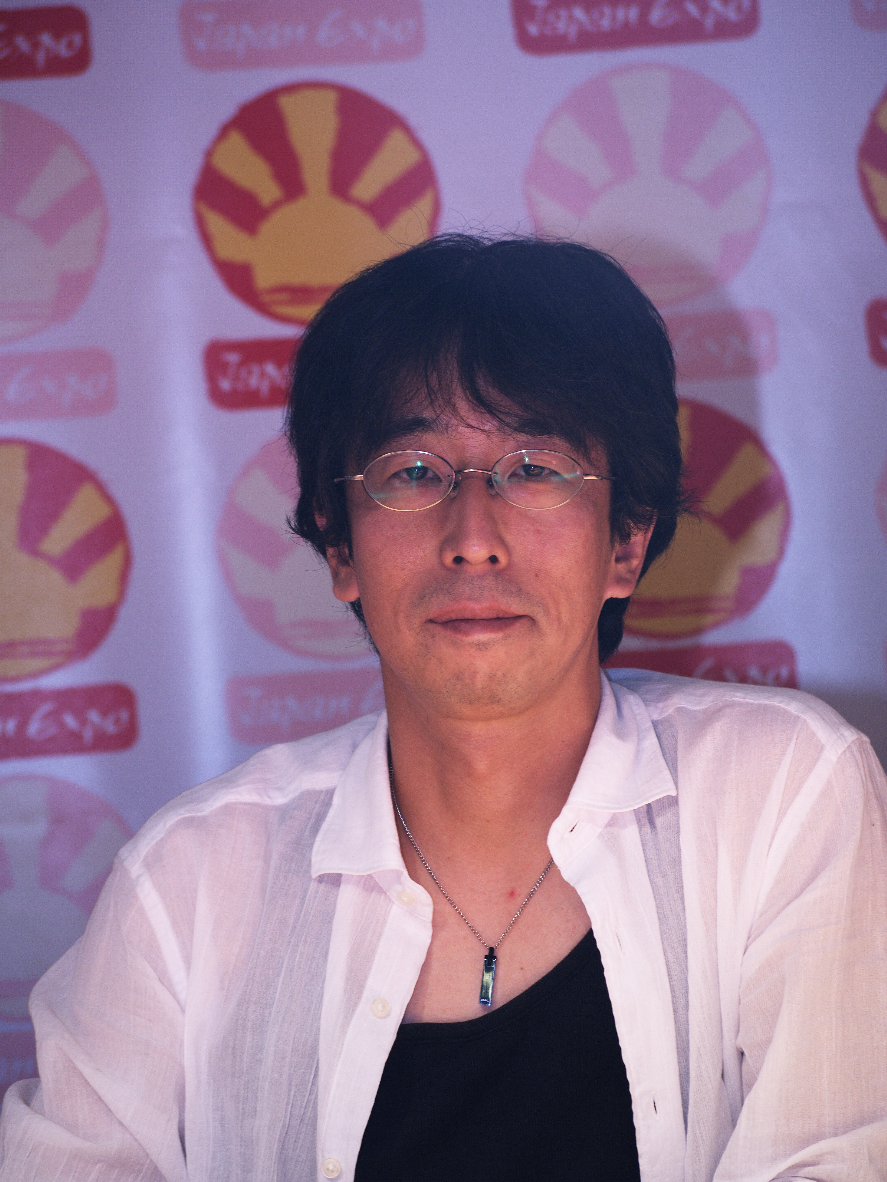 Japan Expo Festival, 11th impact